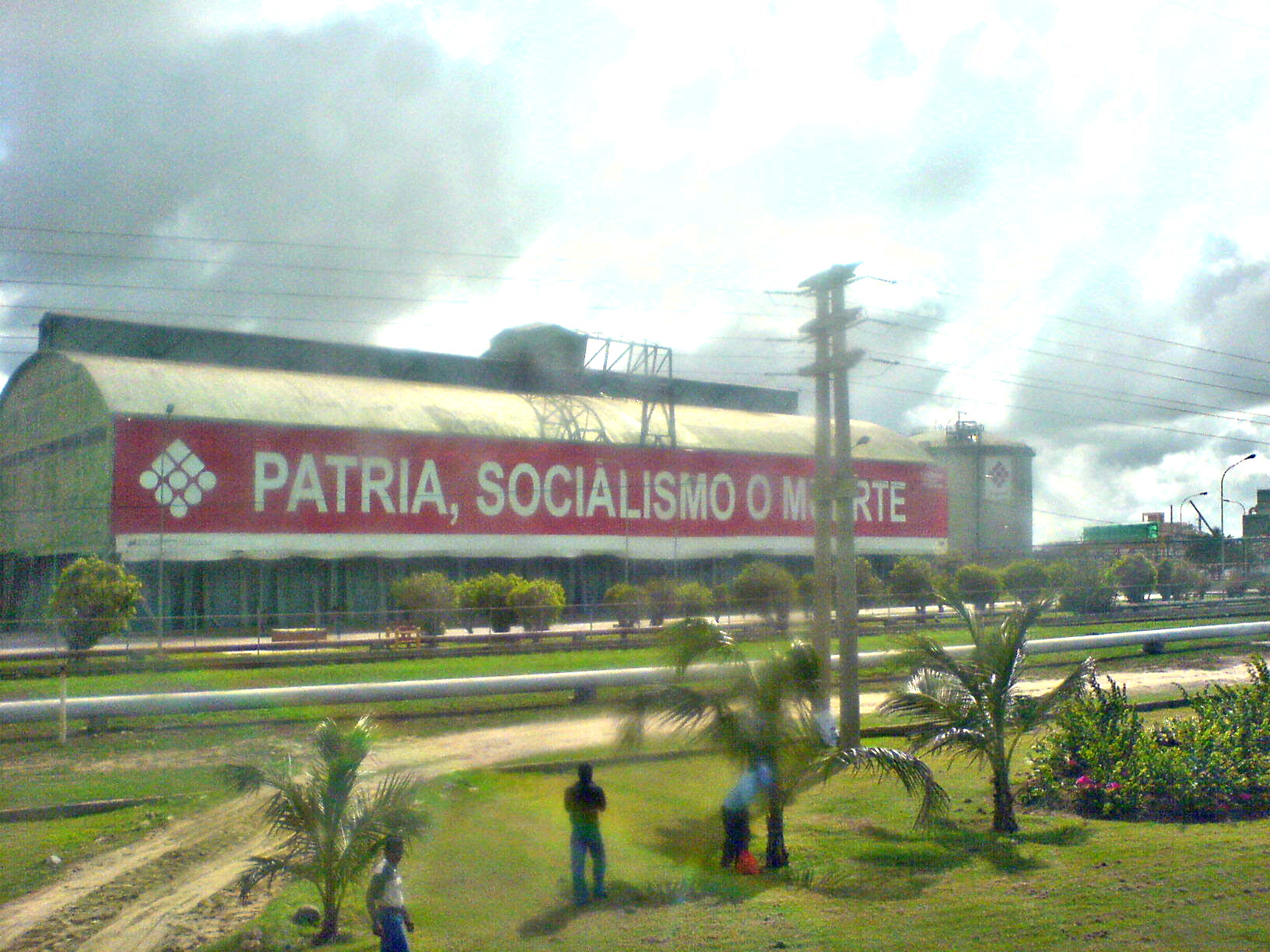 Pequiven building. "Fatherland, socialism or death"